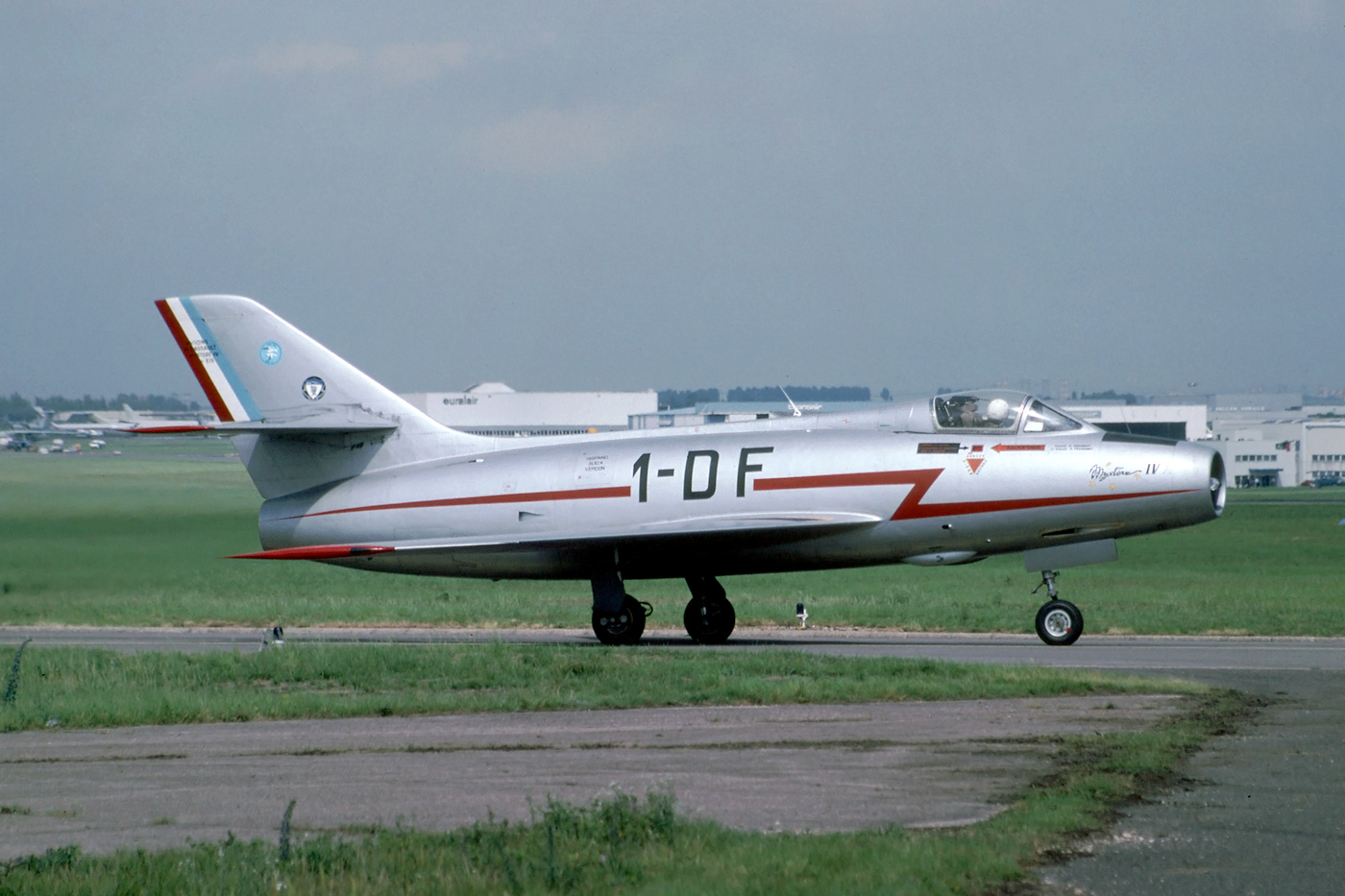 Le Bourget, 22 June 1991. Mystère 315/1-DF (F-AZDF) was one of the historical aircraft displaying during the 'Salon'. The photo was taken from the car park on the west side of the airport. F-AZDF crash landed in 1996 at St. Dizier.